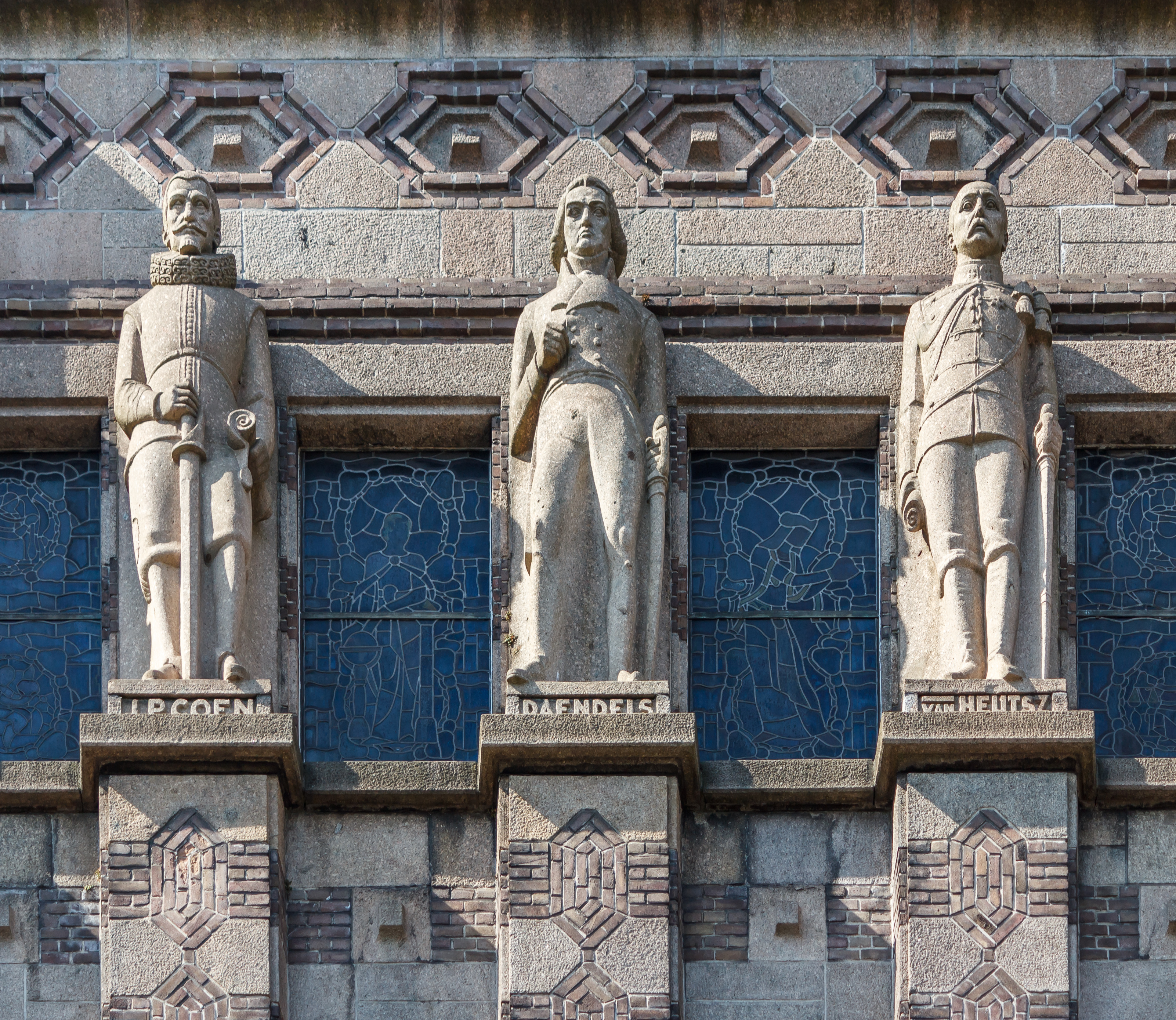 Sculptures created by Joseph Mendes da Costa of three Dutch generals of the East Indies over the main entrance of the De Bazel building (Amsterdam City Archives) at Vijzelstraat, Amsterdam, the Netherlands. The generals are from left to right: Jan Pieterszoon Coen (1587 – 1629), Herman Willem Daendels (1762-1818) and Joannes Benedictus van Heutsz (1851-1924).